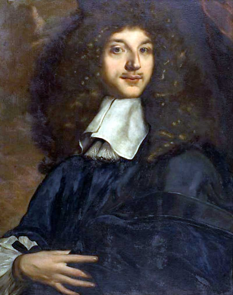 Theodorus Rijcke (1640-1690) Dutch historian and rhetorician